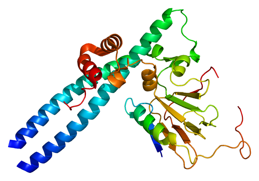 Structure of the E2F1 protein. Based on PyMOL rendering of PDB 2aze.